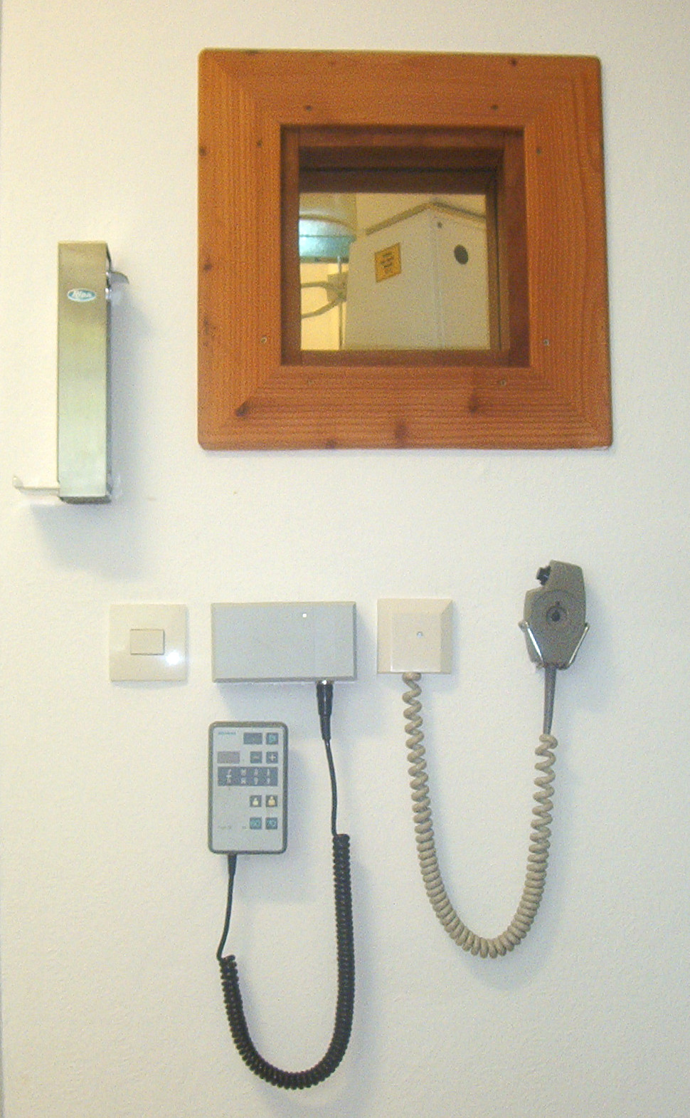 Window with pane of leaded glass for protection by x-rays